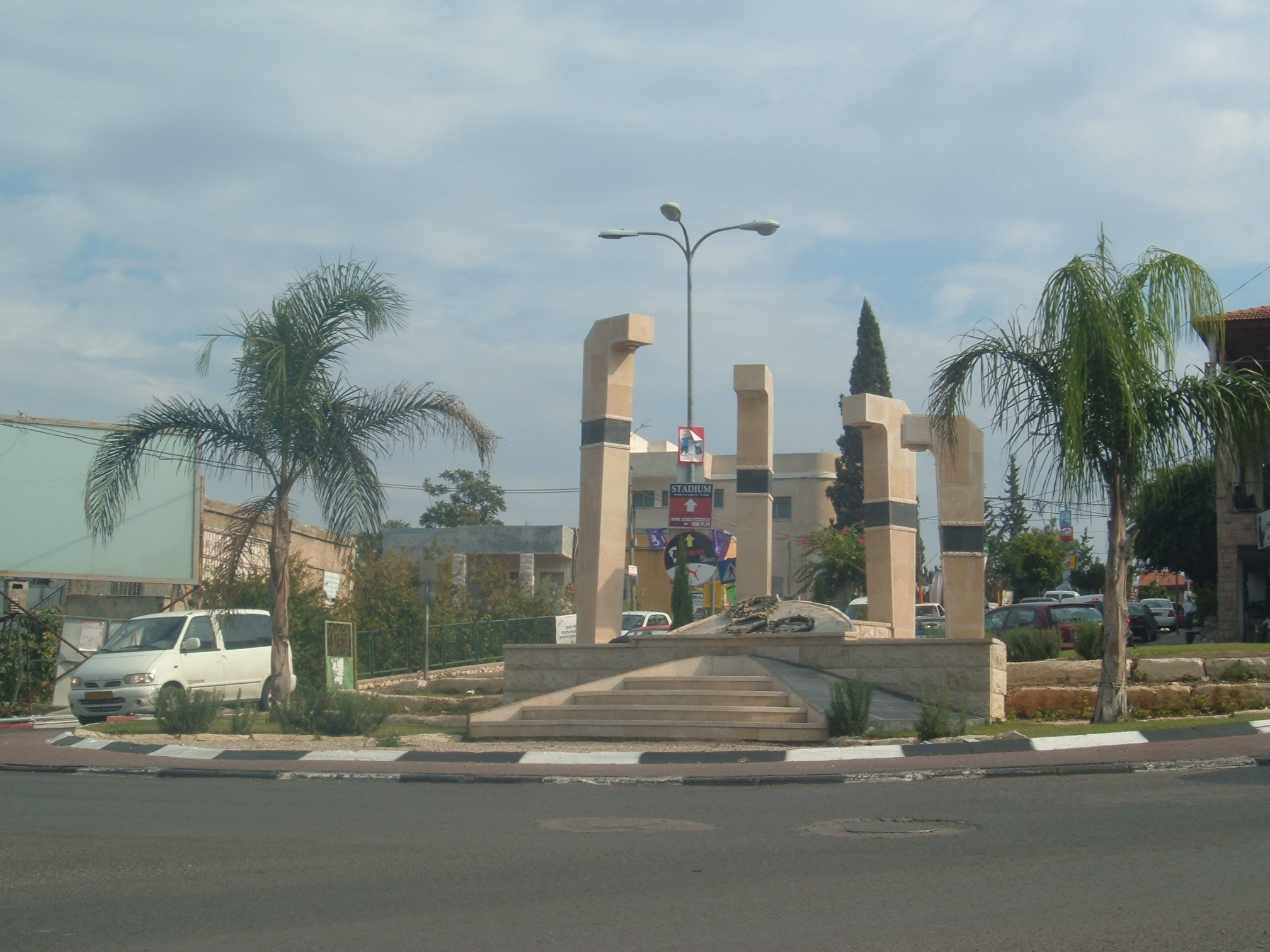 the square in Shfaram where thje Natan-zada terrorist attack took place הכיכר בשפרעם לזכר הנרצחים בפיגוע שבוצע ע"י המחבל עדן נתן-זאדה